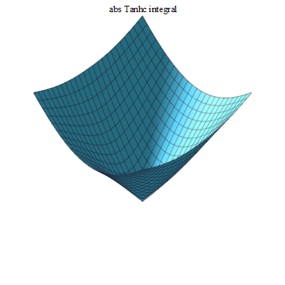 Tanhc integral abs 3D plot